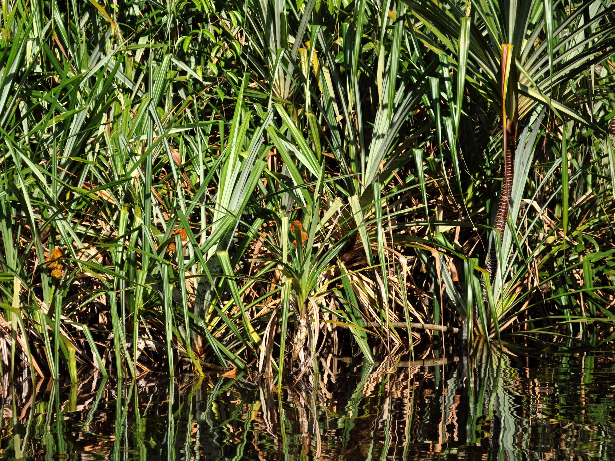 Benstonea affinis, fruiting plants, at the riverbank of Tempapan River, West Kalimantan, Indonesia. Higher pandans with dark brow stem at right is rasau, Pandanus helicopus.